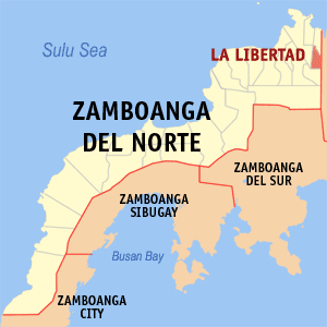 Map of the Zamboanga del Norte showing the location of La Libertad